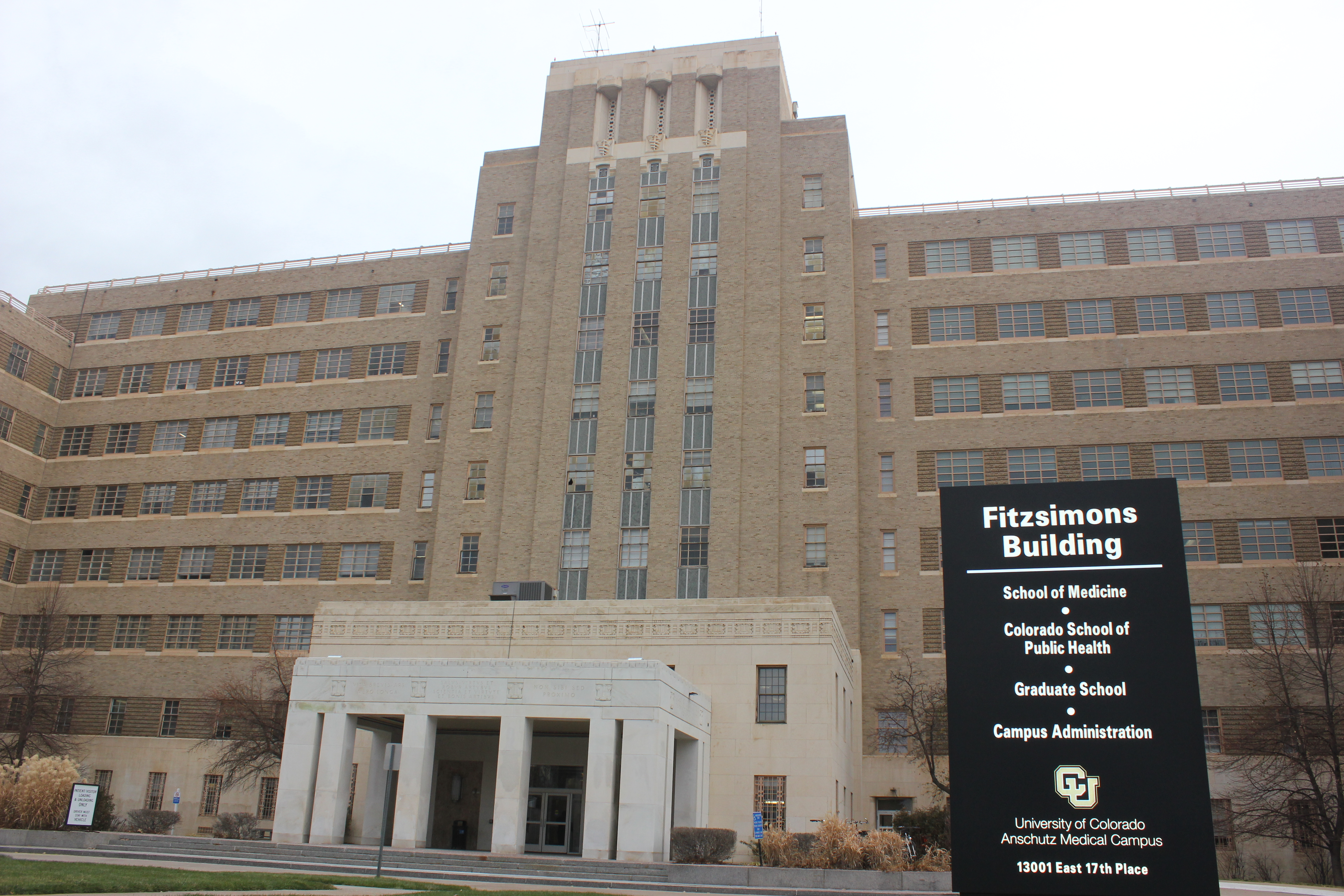 The historic Fitzsimons Building on the University of Colorado Anschutz Medical Campus houses the administrative and departmental functions of the Colorado School of Public Health.